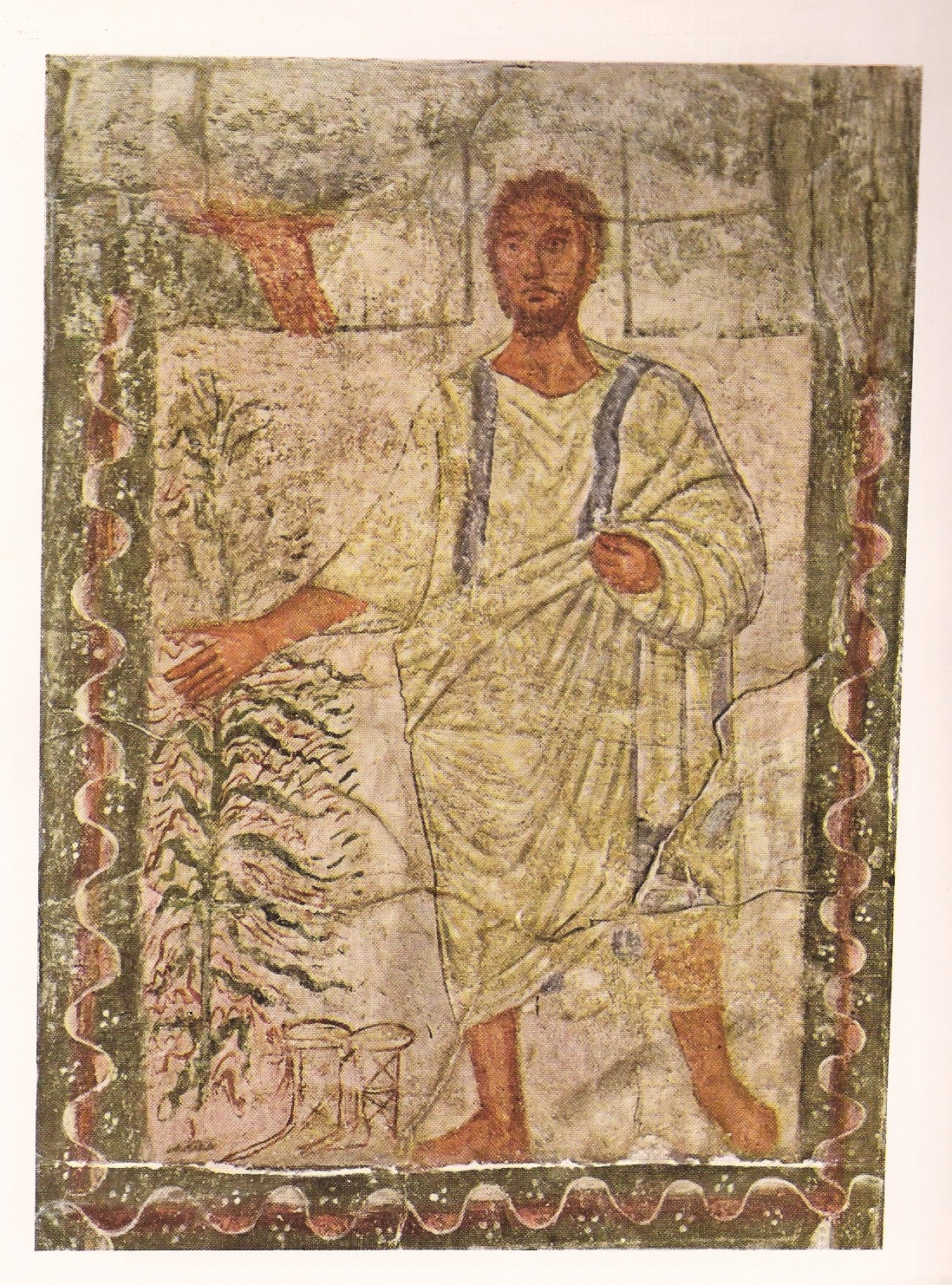 Dura Europos synagogue wall painting